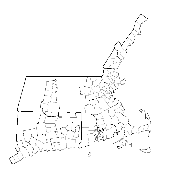 Town lines and Boundaries as they appeared in 1700. New Hampshire has 6 towns, Rhode Island 9, Connecticut 31, Massachusetts Bay, including plymouth and maine, 89